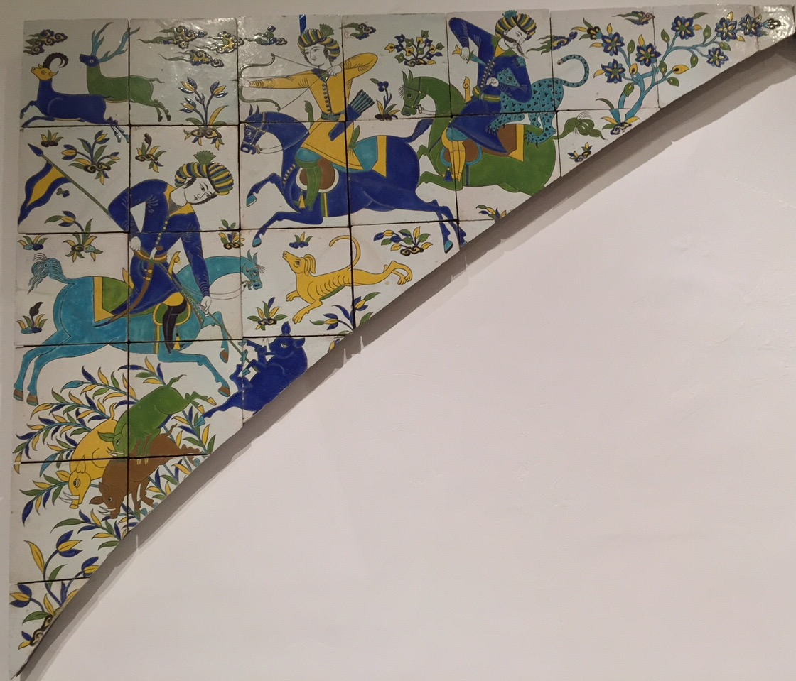 Tiled Arch with Hunting Scenes. Late 17th century, Isfahan/Iran; faience, glazed colours applied in cuerda seca technique H 132 cm; W 346 cm